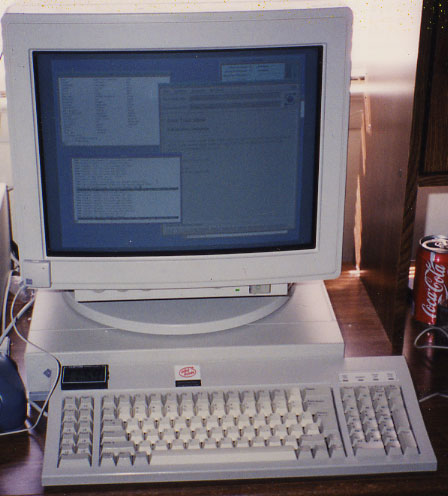 SPARCstation 1+ 25MHz SPARC 1152x900 256-color (cg6 GX accelerated) graphics Mosaic web browser and IRC client visible on screen Intel Inside sticker on keyboard is not accurate. Picture taken circa early 1994. by Mike Chapman